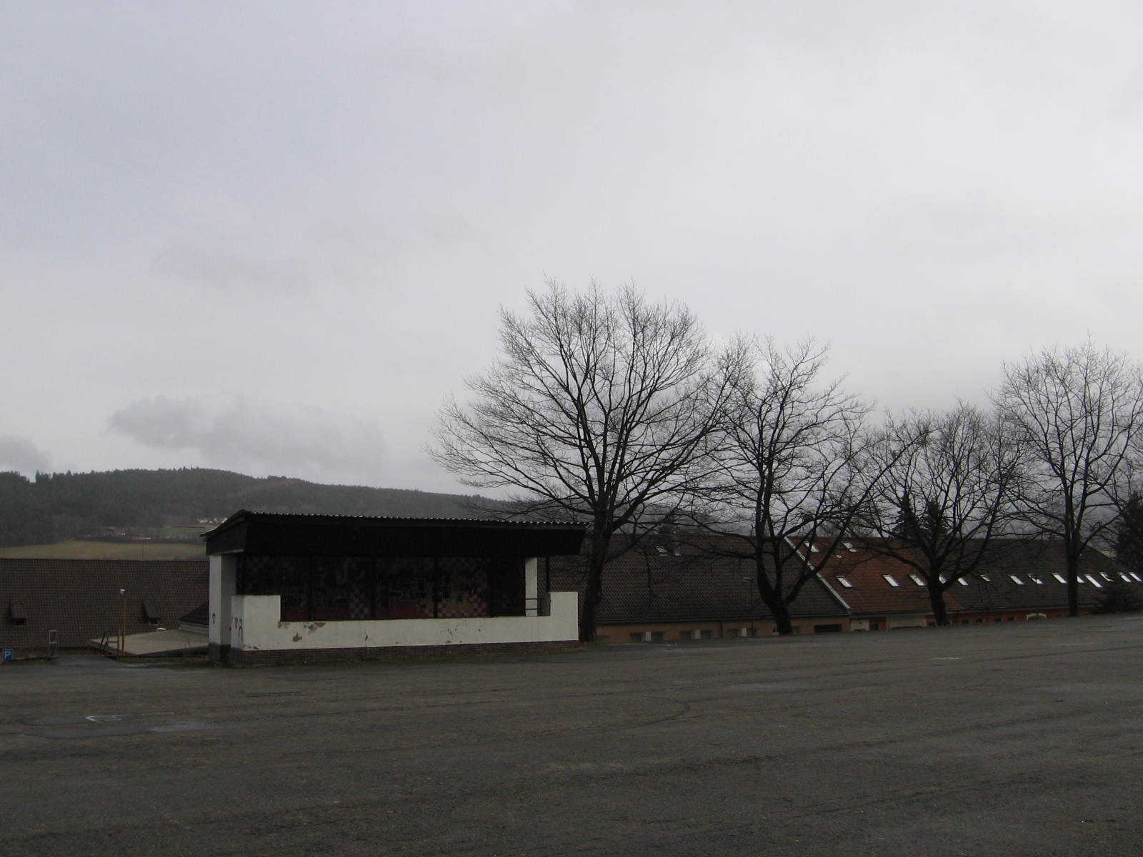 Former Barracks of the 62nd Motor Rifle Regiment in Prachatice.